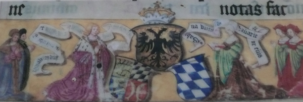 Ulrich von Württemberg and Sabina of Bavaria in Lorcher Graduale